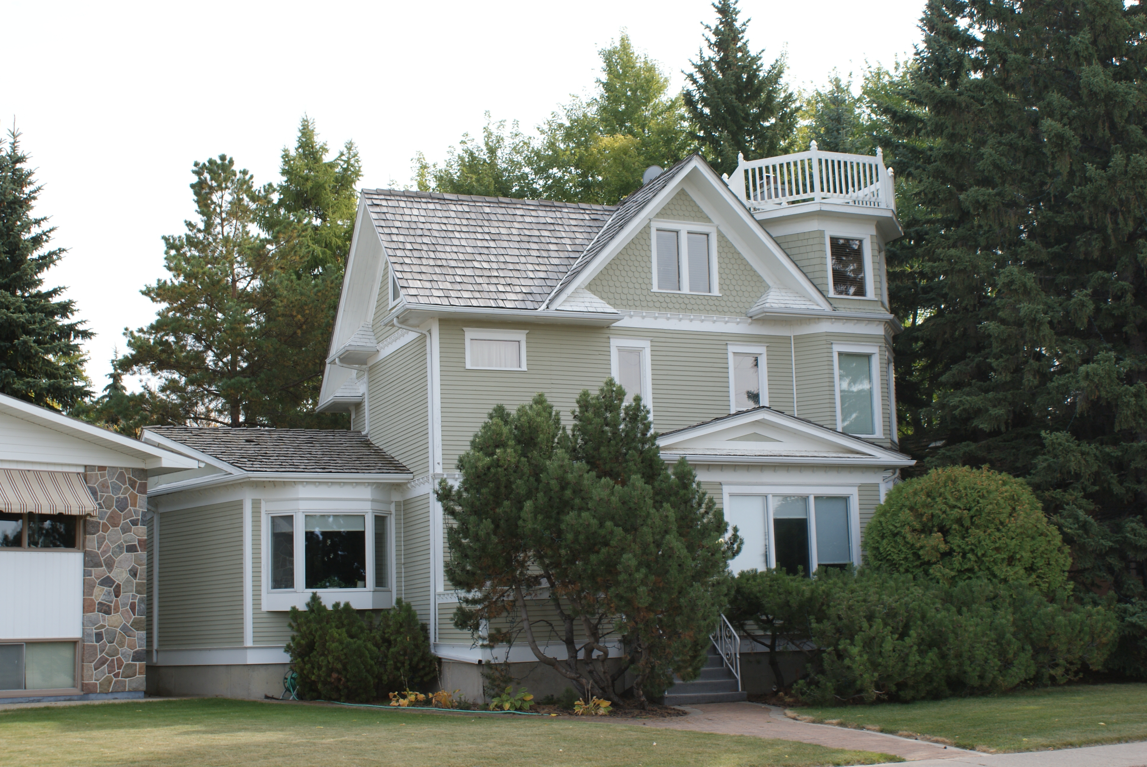 Historic Home Exhibition neighbourhood Saskatoon Sarah Shatwell Pendygrasse arrived from England in 1887 and was awarded a dominion land grant patent at SE section 20 township 36 range 5 W of the 3rd meridian, Saskatchewan provisional district, North West Territories on December 12 1892. [1] Her son Harold L. S. Pendygrasse homestead at NE Section 20 township 35 Range 3 W of the 3rd meridian. At 1919 St. Henry Avenue, Exhibition subdivision the Pendygrasse Home built by Harold Pendygrasse in 1910 has been declared a municipal heritage site. It is built on the banks of the South Saskatchewan river east side of Saskatoon. [2]